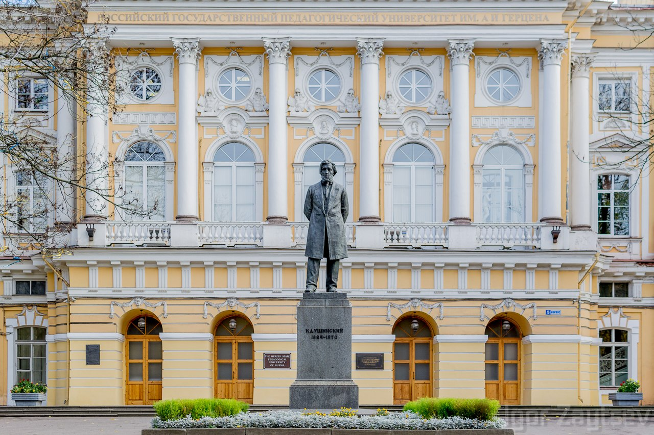 Saint-Petersburg (Russia), Herzen University.